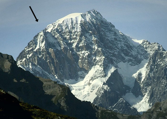 This image is a modification of Image:Mbcourmayeur0001.jpg, with Picco Luigi Amedeo marked with arrow. Mont Blanc de Courmayeur (4765 m) seen from La Thuile (I).